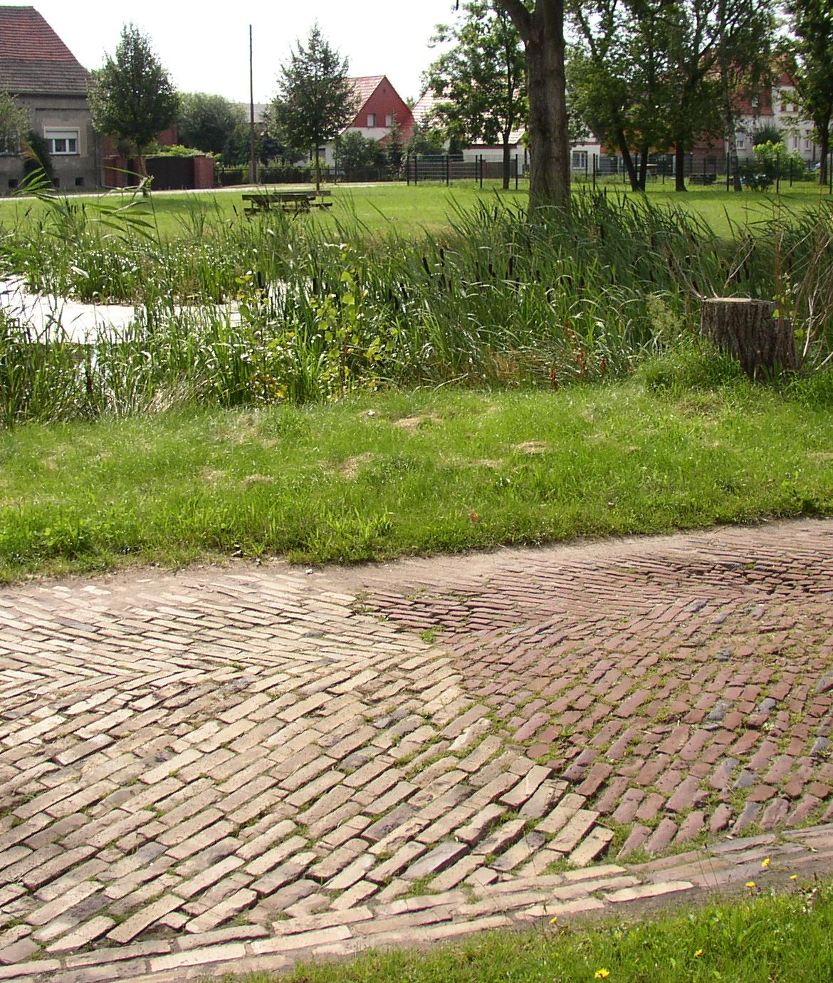 Brick road in Wulkow-Kleinwulkow in Saxony-Anhalt, Germany